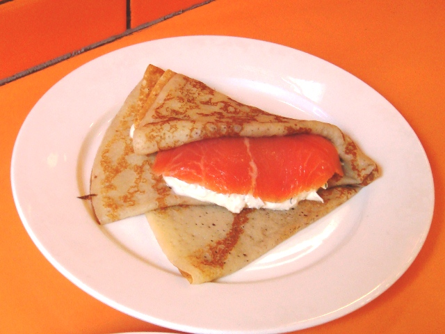 Blini (Russian crepe) with salmon, Location: Saint Petersburg